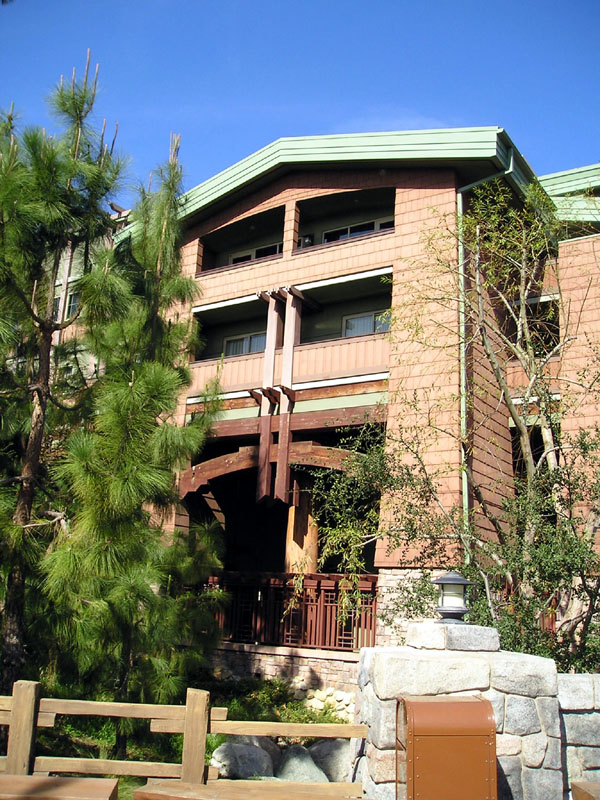 Disney's Grand Californian Hotel by Ellen Levy Finch (user elf) feb 2006